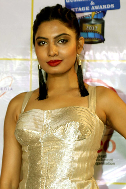 Avani Modi attends the 17th Transmedia Gujarati Screen & Stage Awards in Mumbai